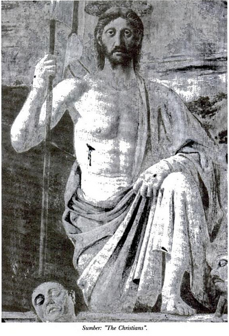 Resurrection by Piero della Francesca